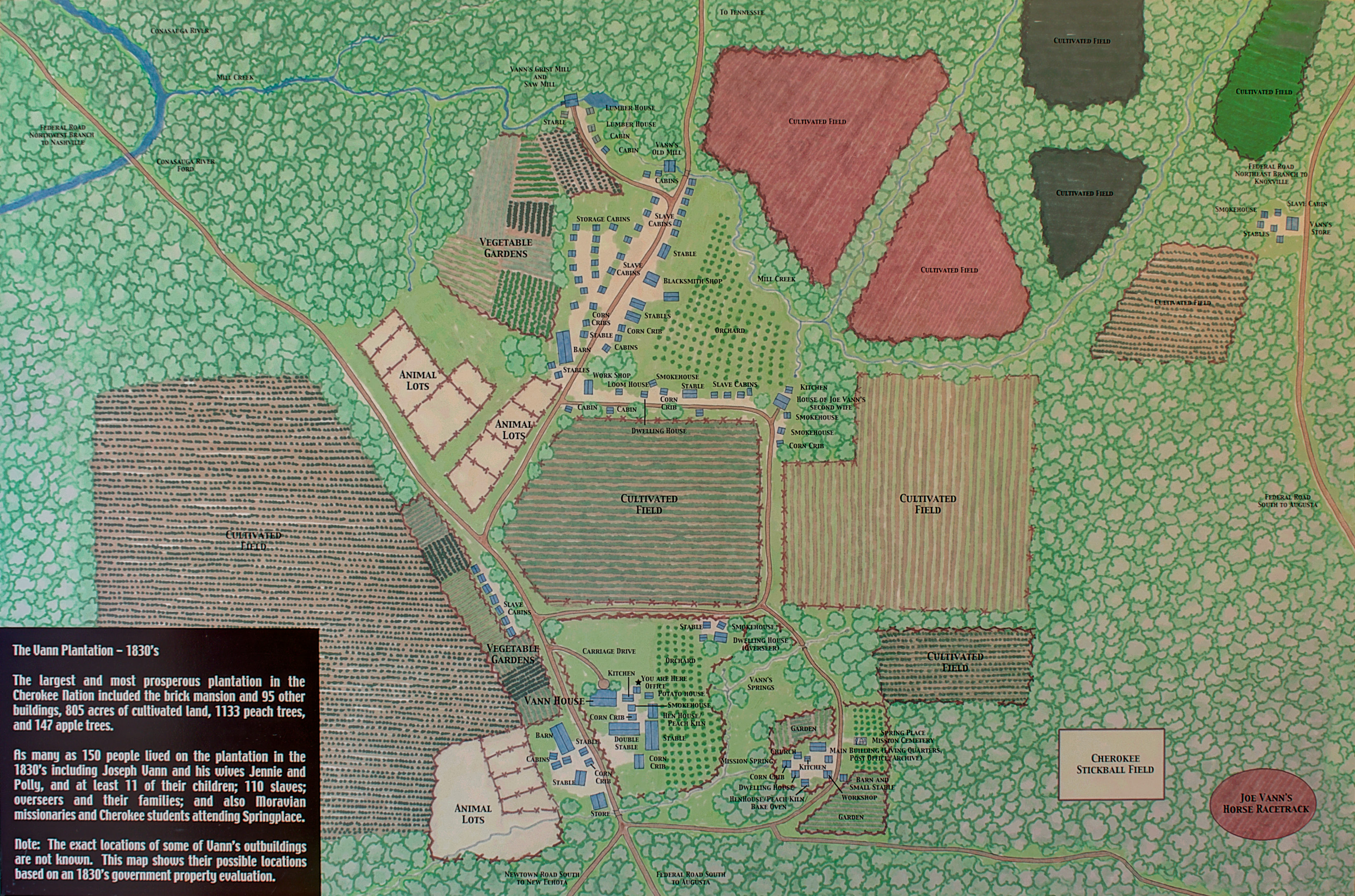 Map of Chief Vann House Historic Site